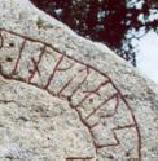 Gripsholm Runestone (detail)